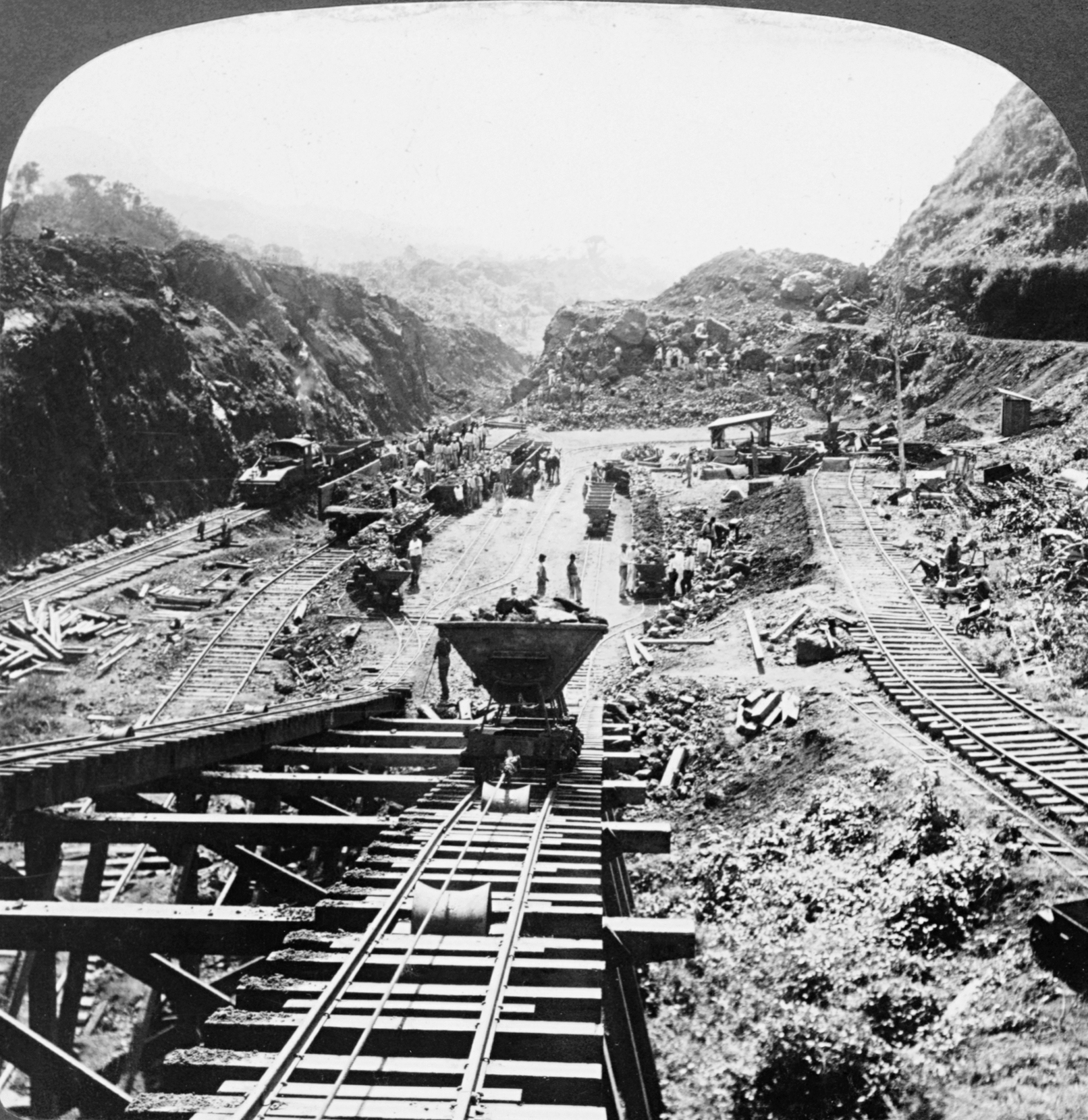 Excavation and removal of dirt at the Culebra Cut, Panama Canal (Original title: Where the work is being pushed with greatest energy - the famous Culebra Cut, Panama Canal)